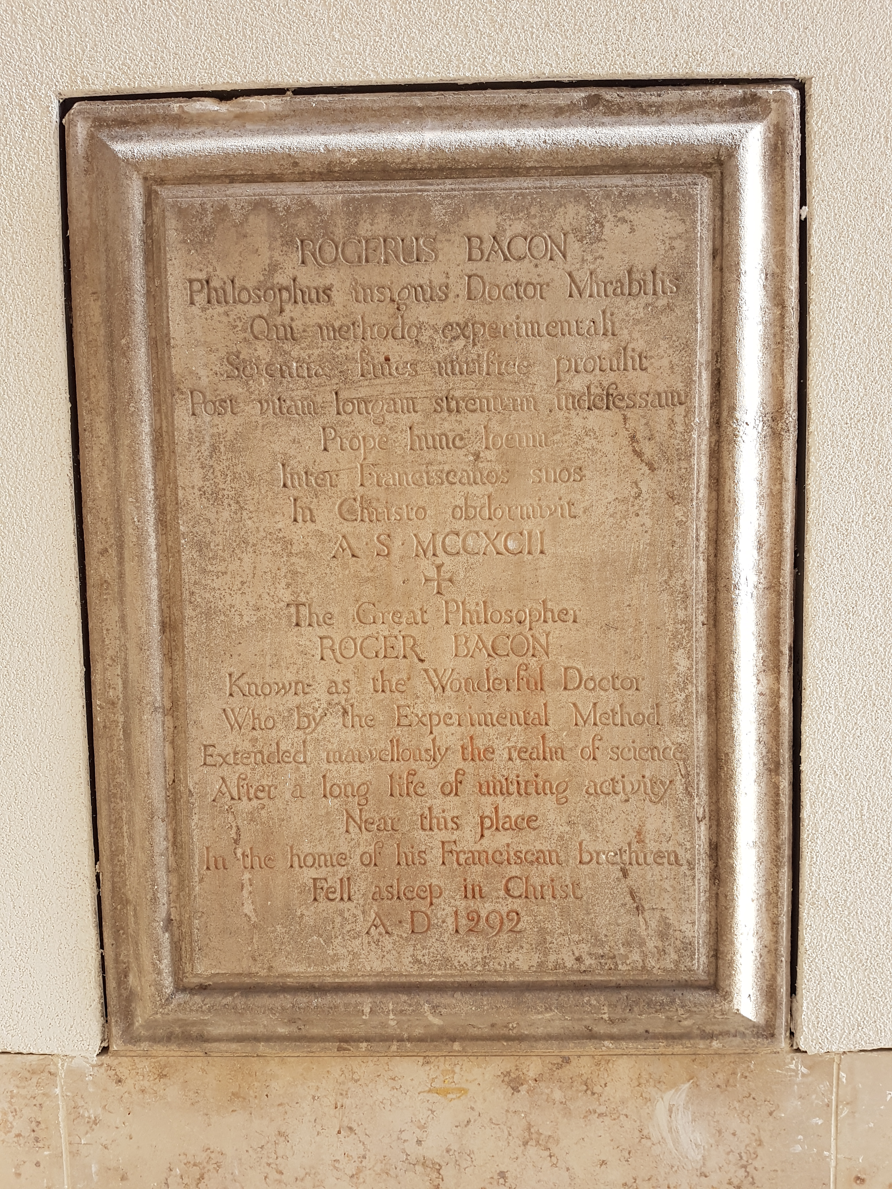 Plaque commemorating Roger Bacon in the Westgate shopping Centre, Oxford, UK